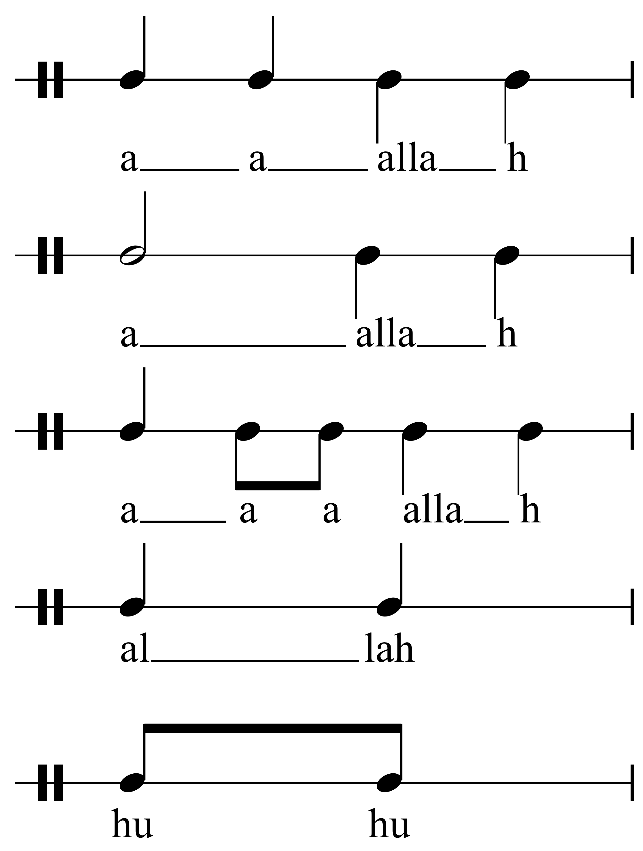 Articulation of exlimation (hadrah) during the climax of a Dhikr. Upward beams indicating inhalation and downward beams indicating exhalation.